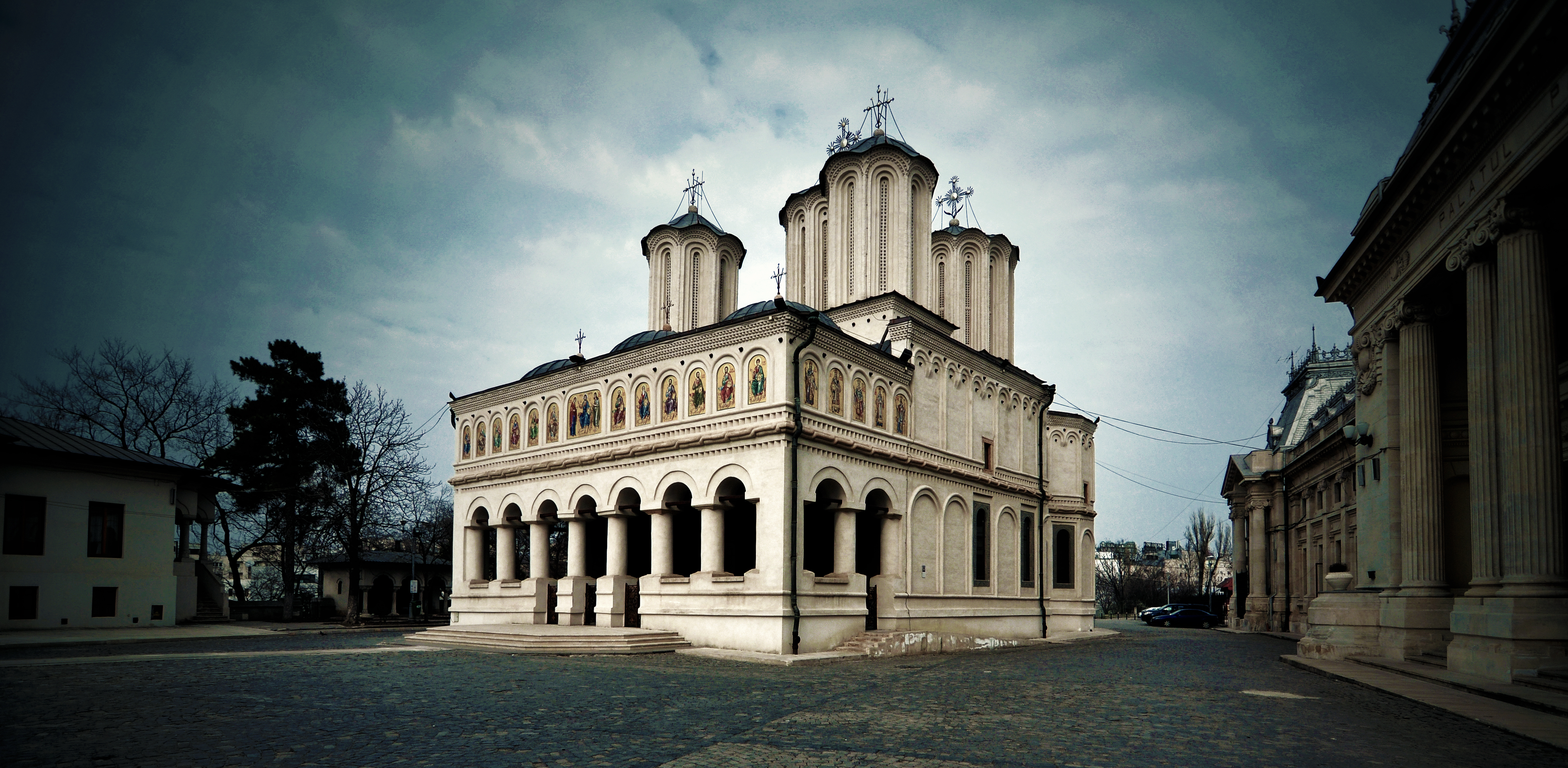 Patriarchal Cathedral, Bucharest, finished in 1658